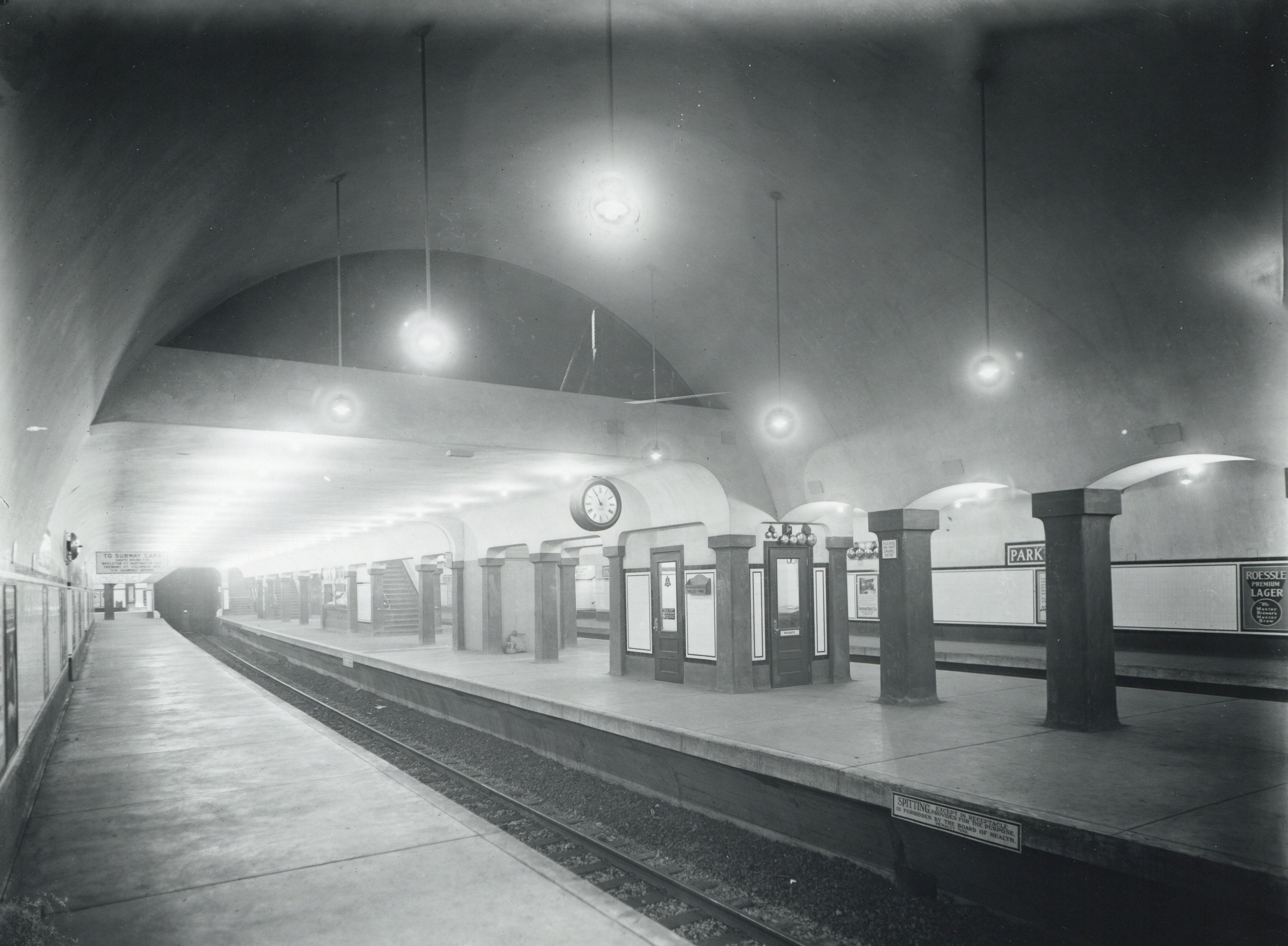 Park Street Under in September 1912, six months after its opening